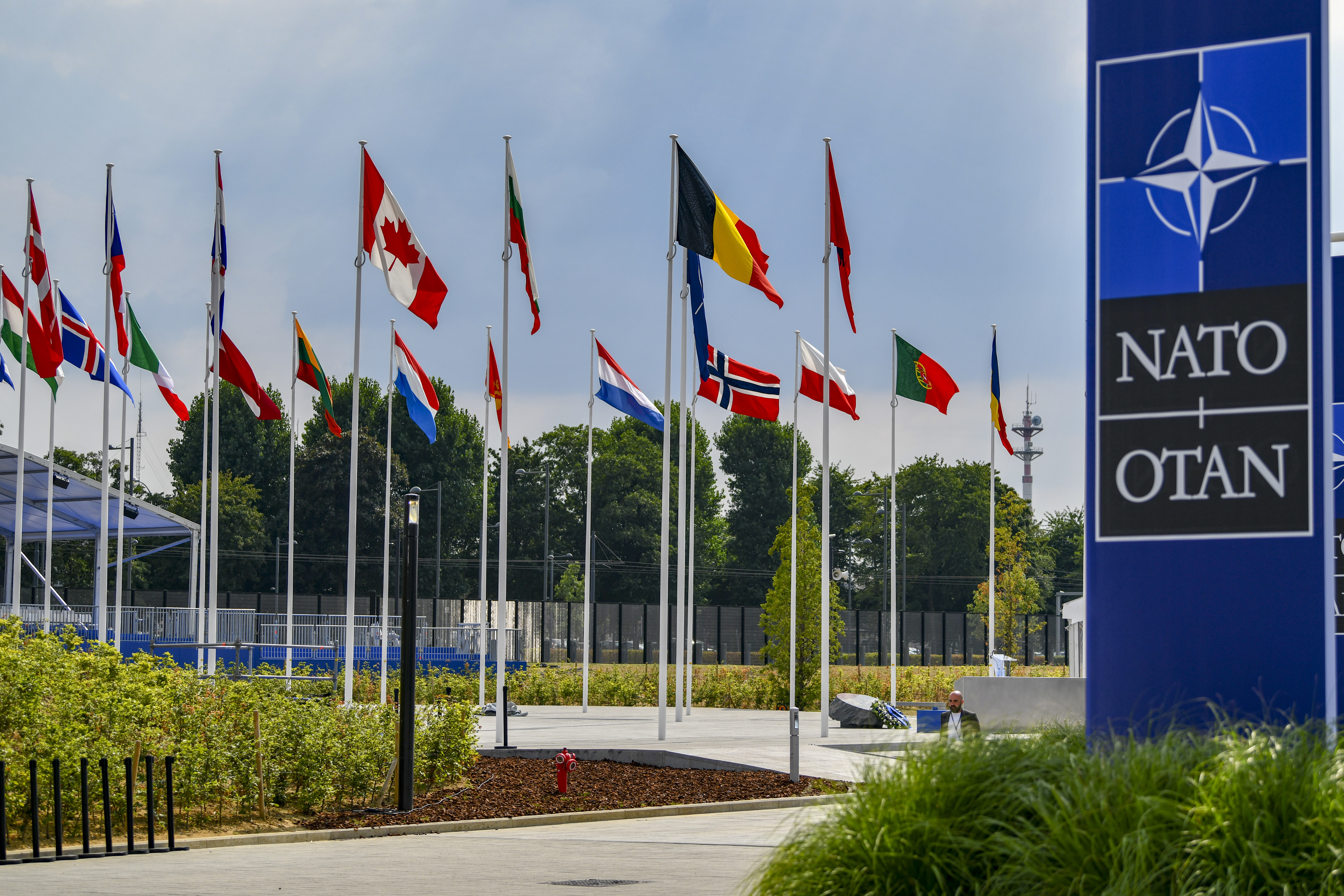 NATO headquarters as U.S. Secretary of State Michael R. Pompeo departs the NATO summit in Brussels, Belgium on July 12, 2018. [State Department photo/ Public Domain]